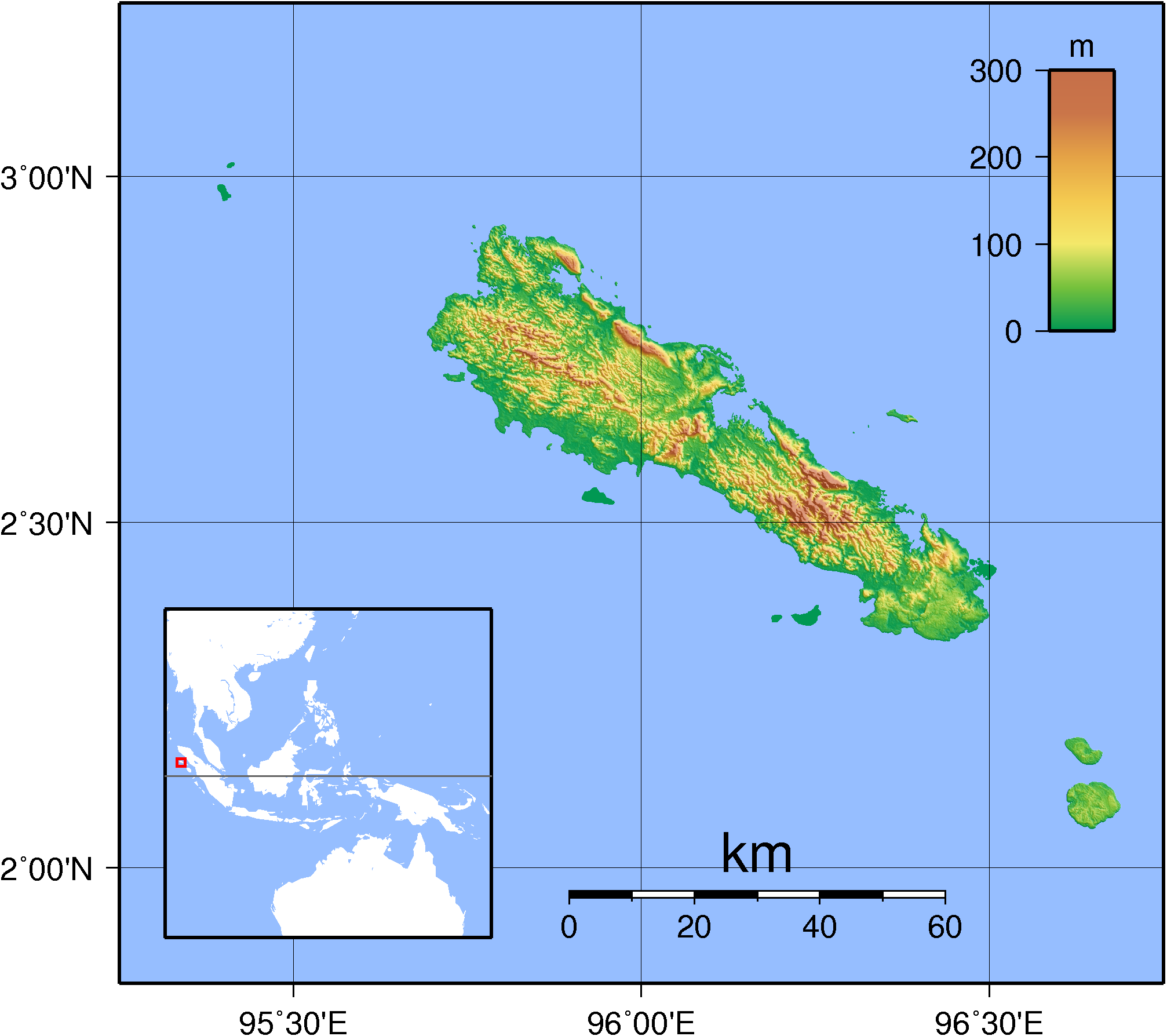 Topographic map of Simeulue, Indonesia. Created with GMT from SRTM data.